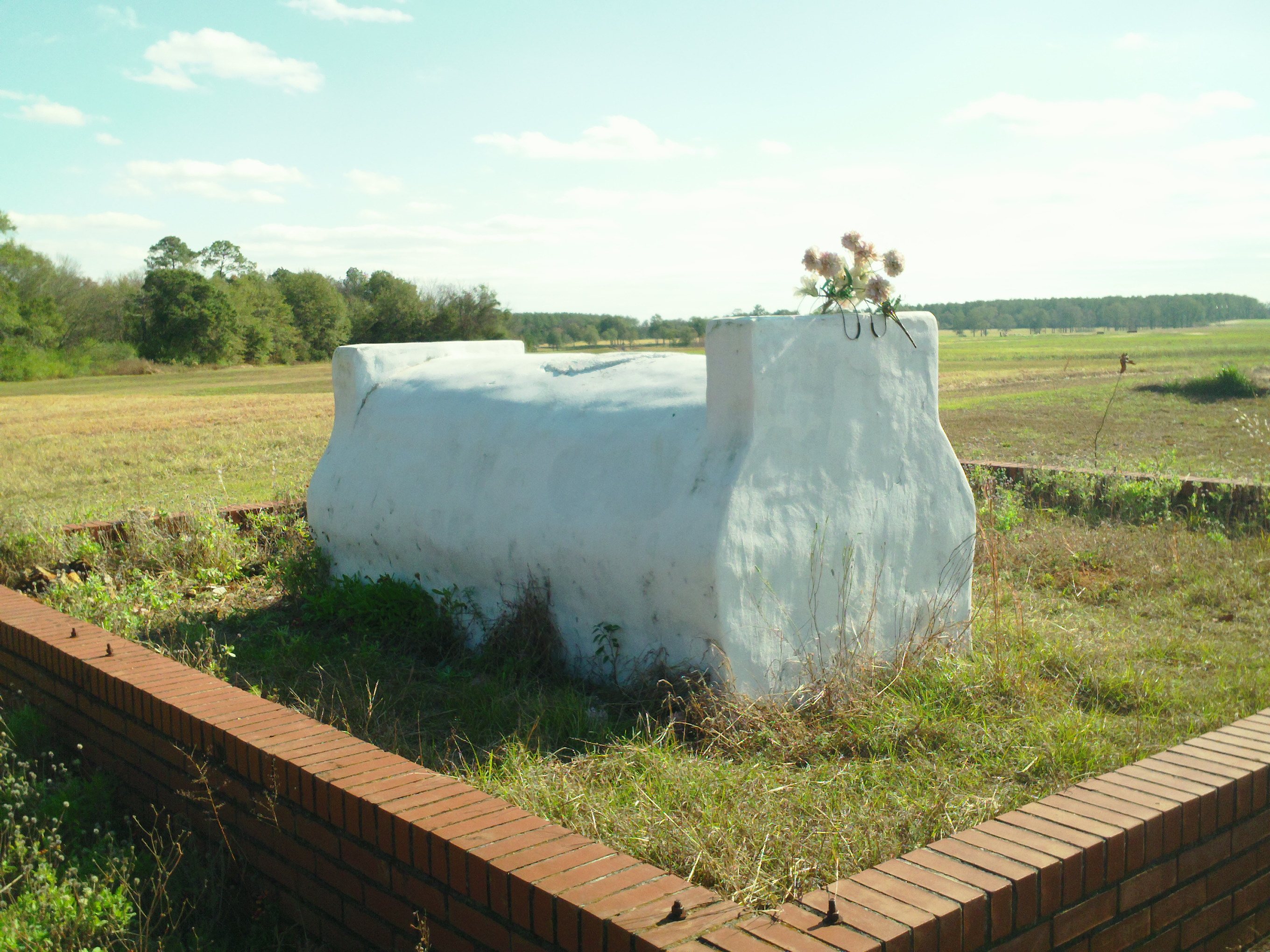 Grave 11-29-11